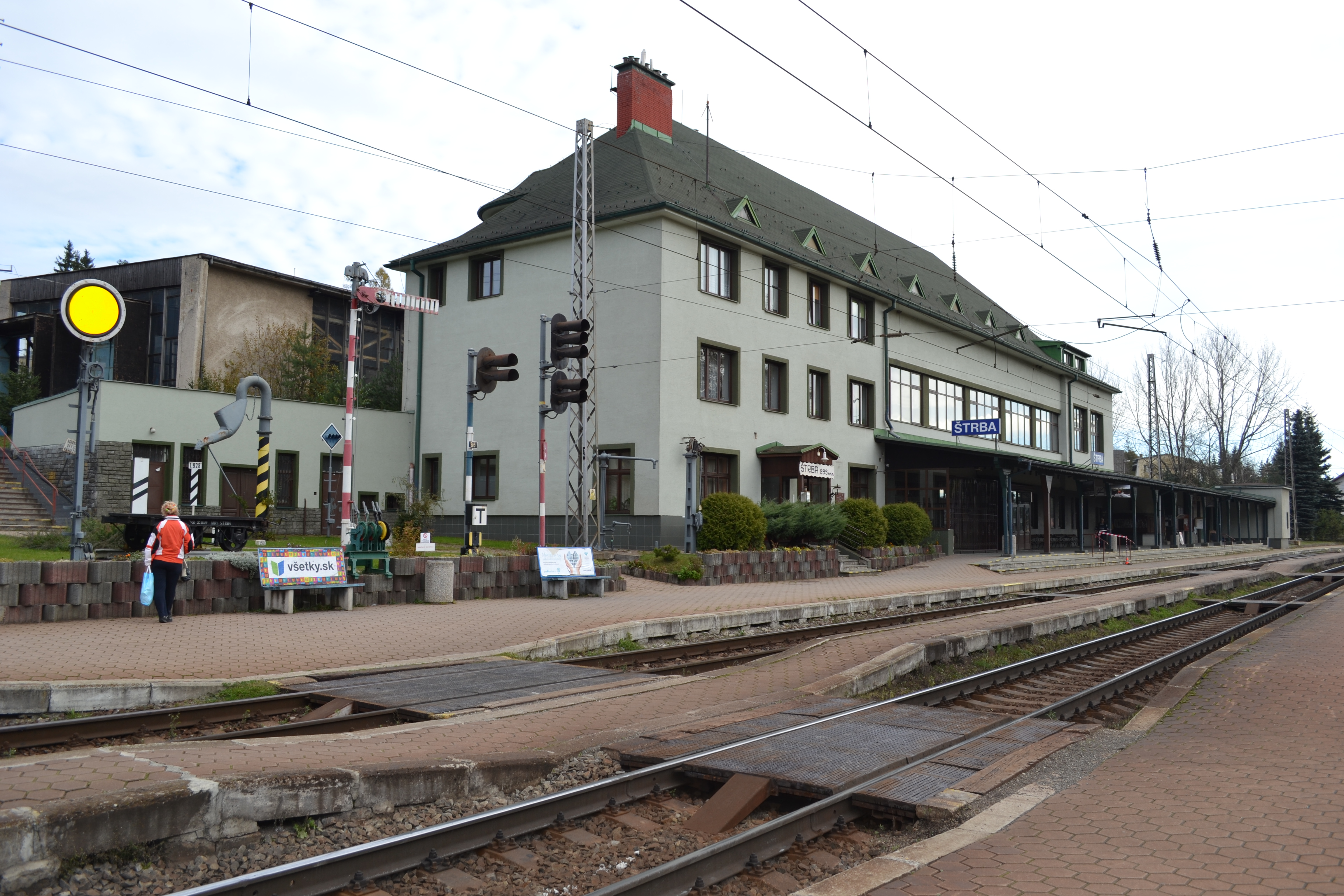 The railway station in Štrba (Tatranská Štrba)